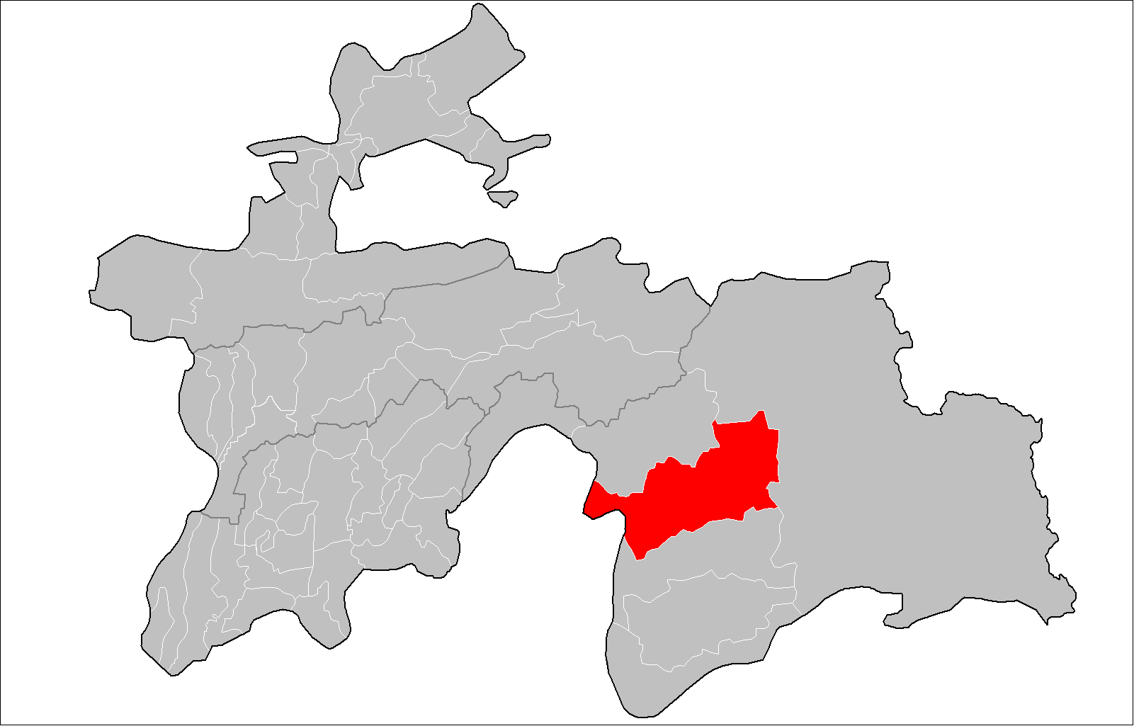 Location of Rushon District in Tajikistan